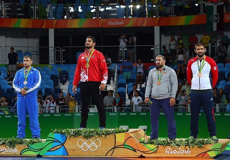 2016 Summer Olympics, Men's Freestyle Wrestling 125 kg Podium